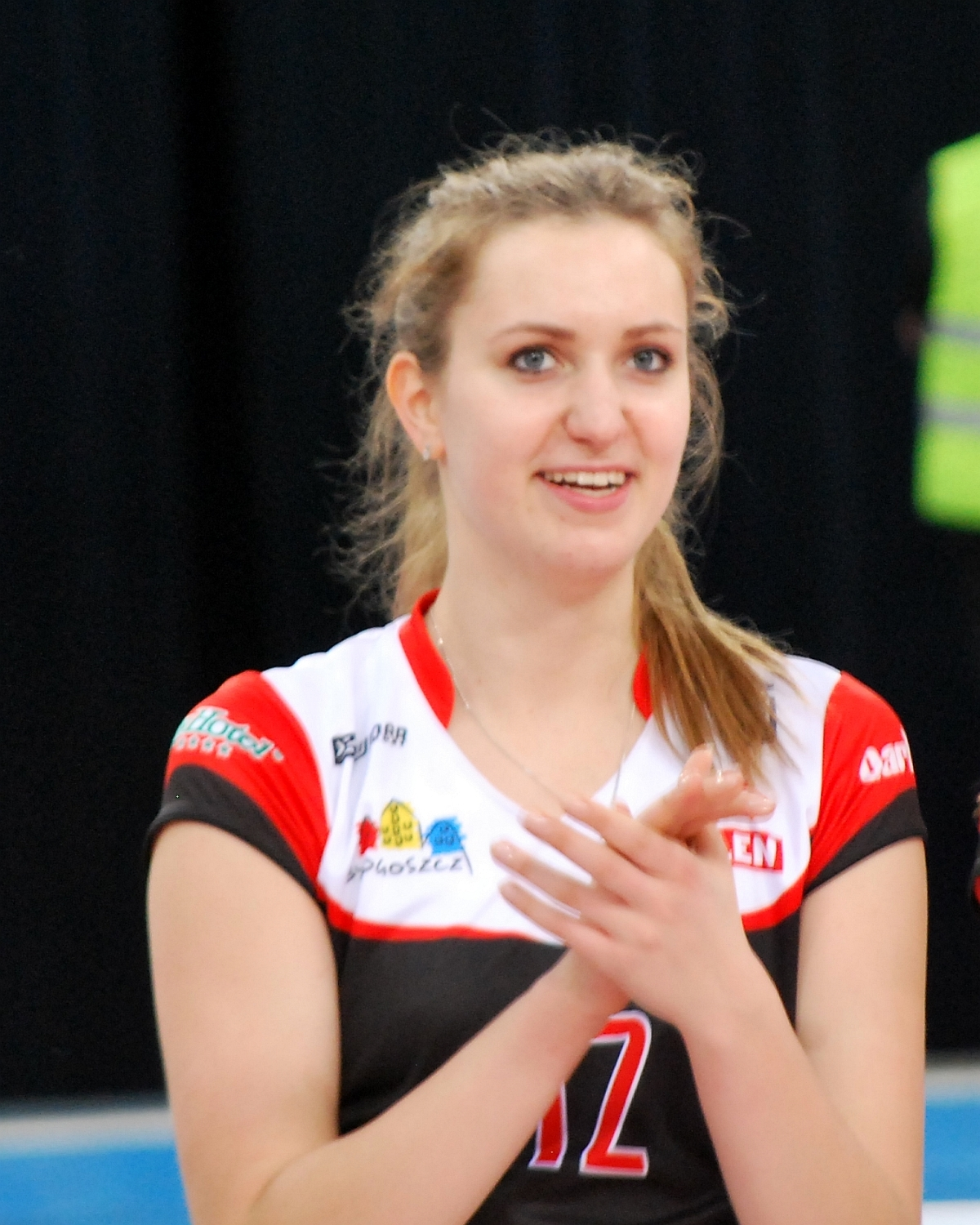 Małgorzata Śmieszek, volleyball player from Poland